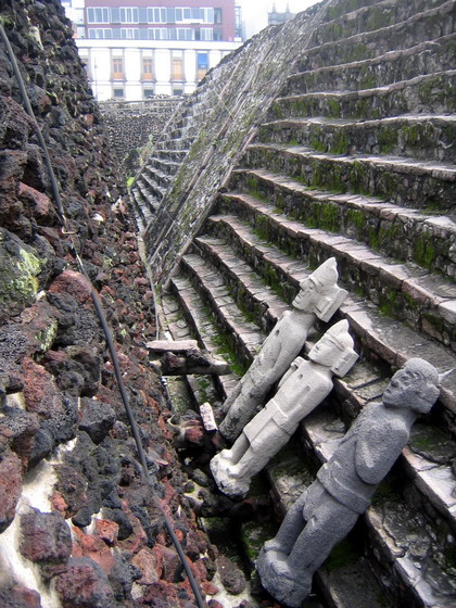 Templo Mayor of Tenochtitlan. Mexico City